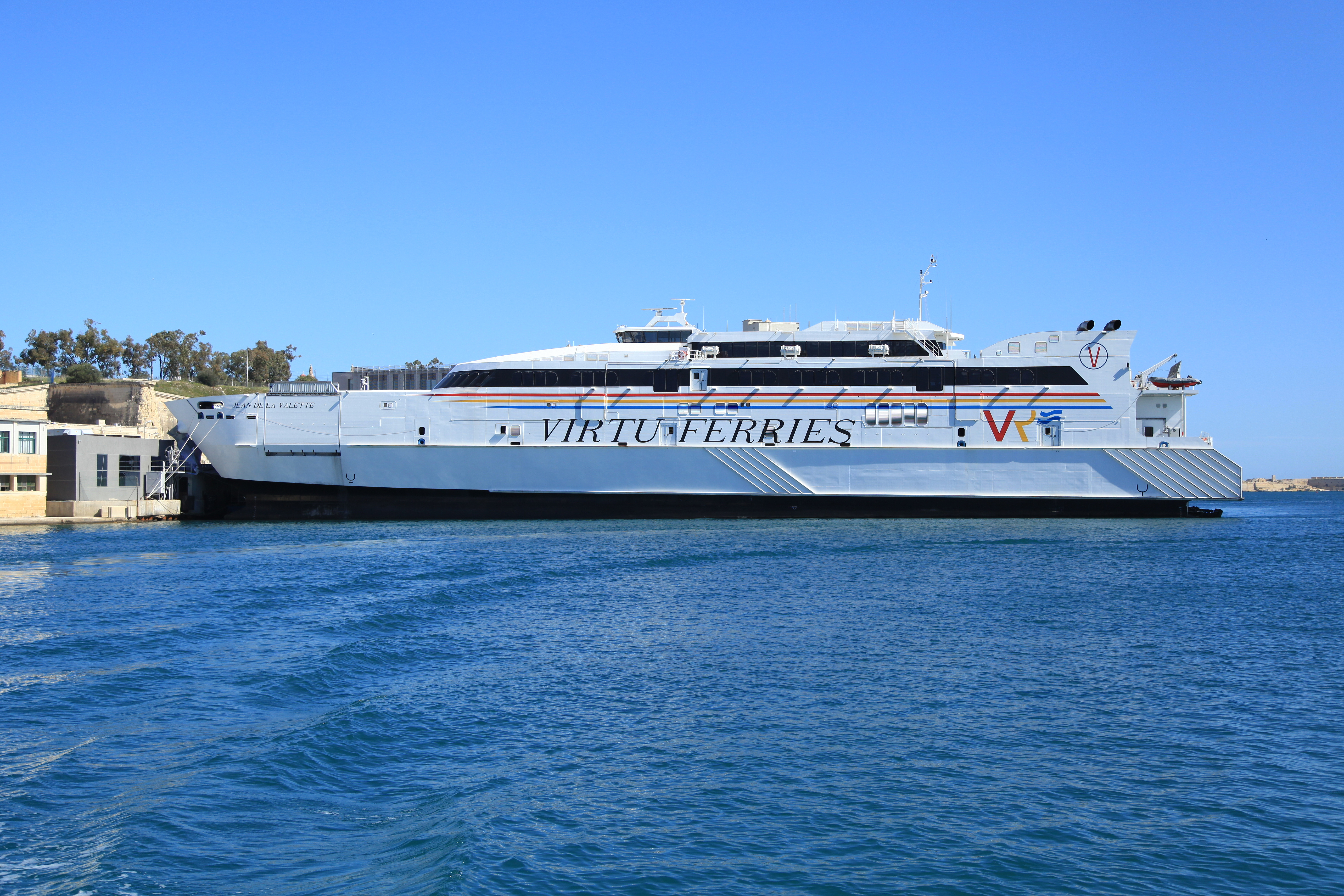 View from a Malta sightseeing two harbours cruise boat to the Ferry "Jean de la Valette" at Triq l-Għassara tal-Għeneb (aka Xatt l-Għassara tal-Għeneb) in Floriana, Malta